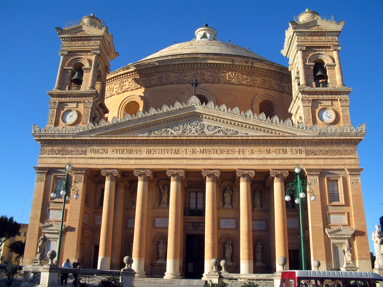 Duomo di Mosta, "Ir-Rotunda"